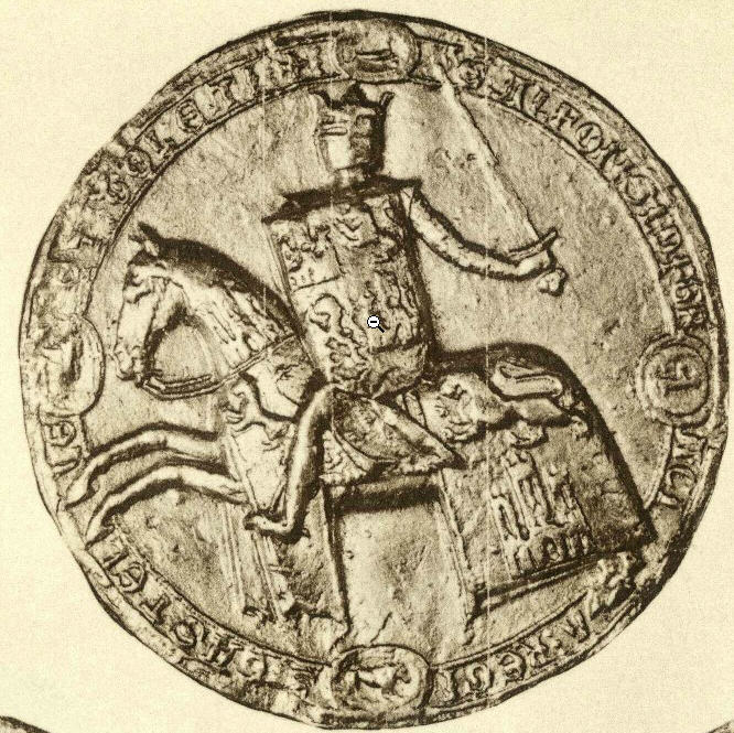 This is a scan of the historical document